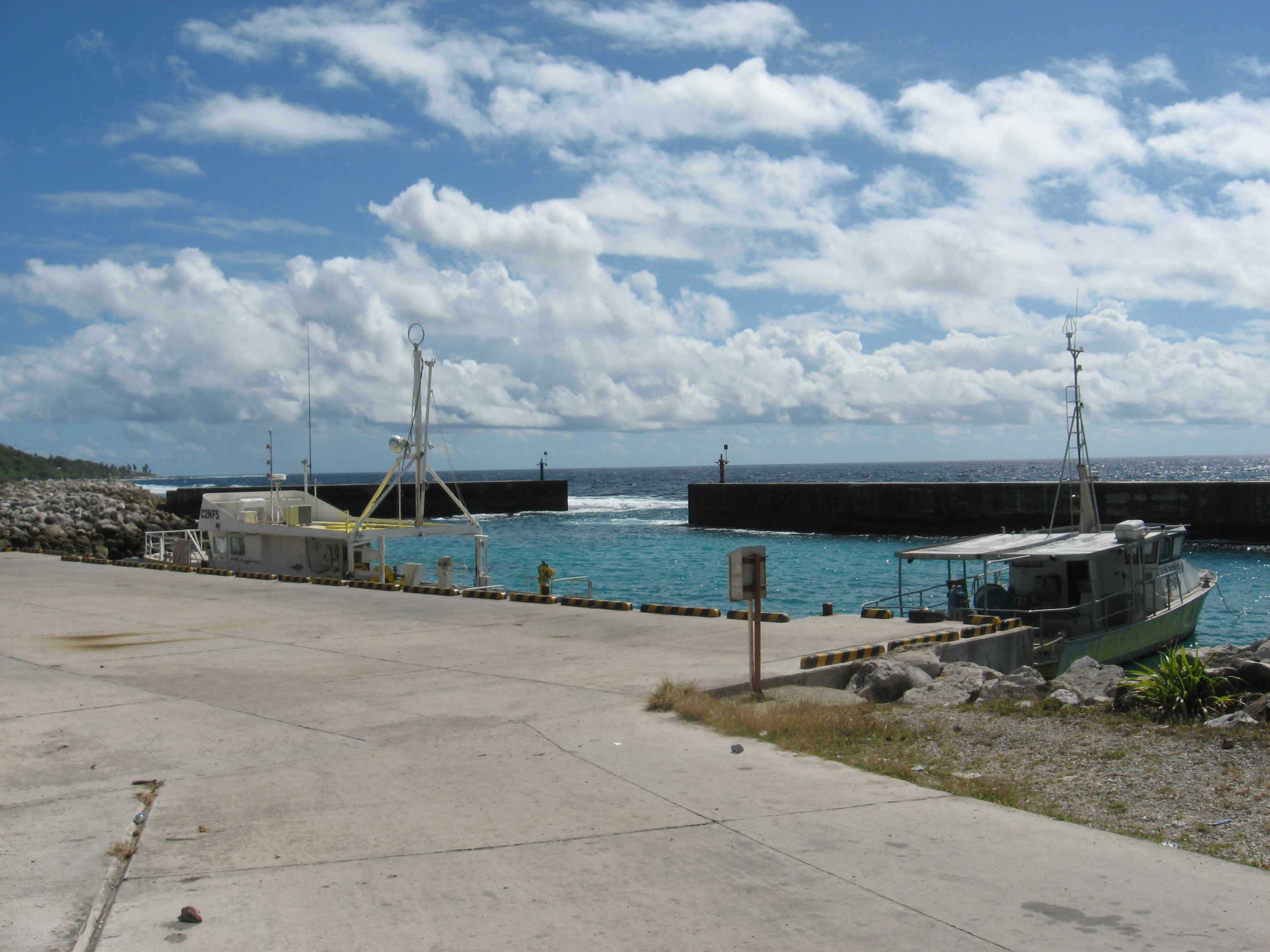 Port of Anibare, Nauru